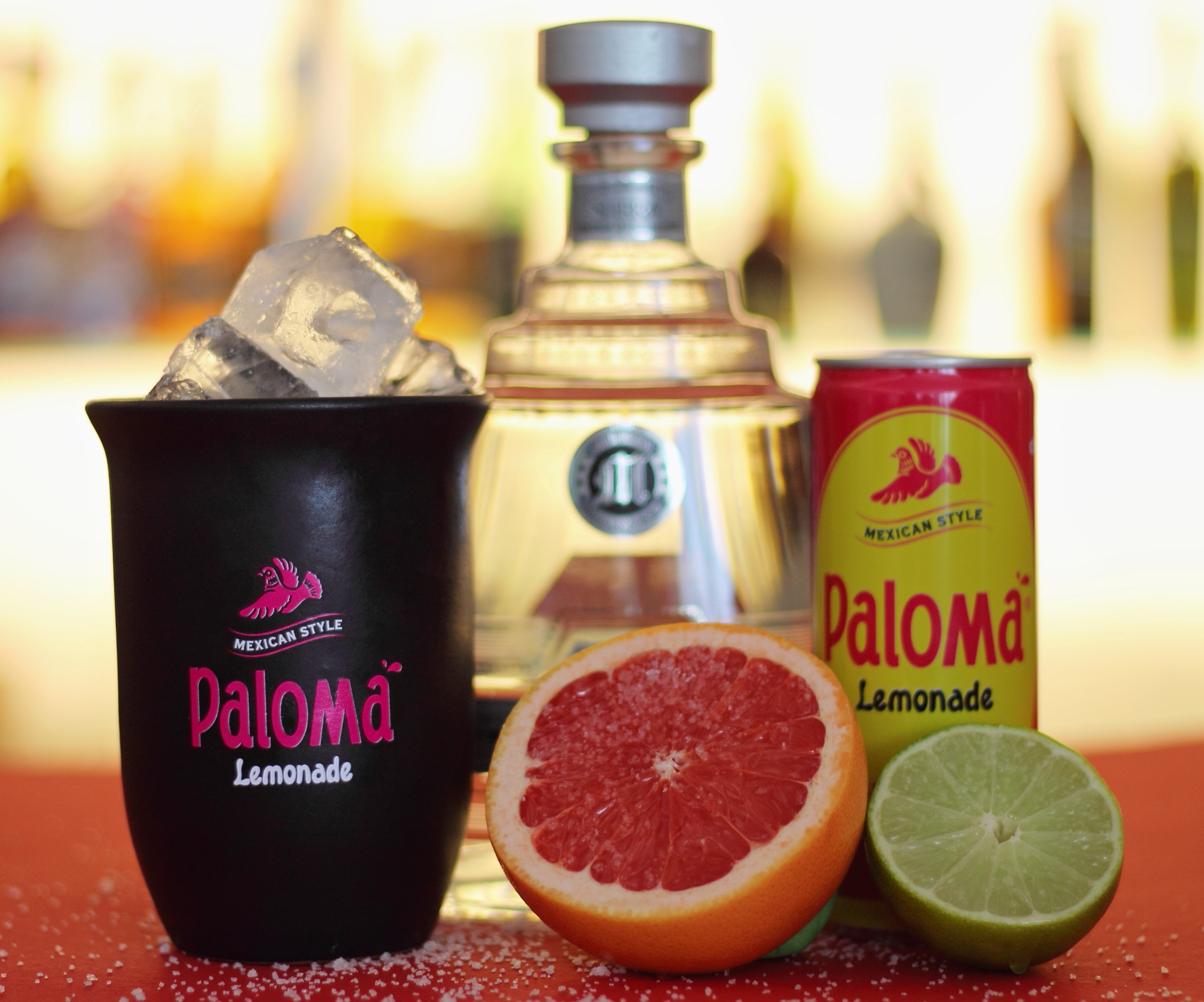 Paloma with correspondent lemonade.